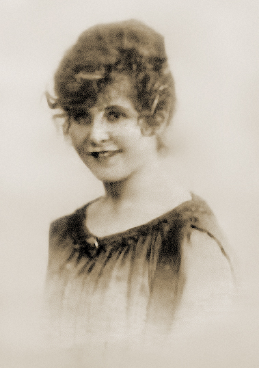 Photo of Grace Marguerite Hay Drummond-Hay (cropped and restored) Restoration of a photograph taken by Sydney Thomas Lethbridge Died: October 15, 1925